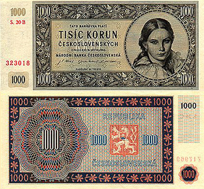 1000 korun československých from 1945